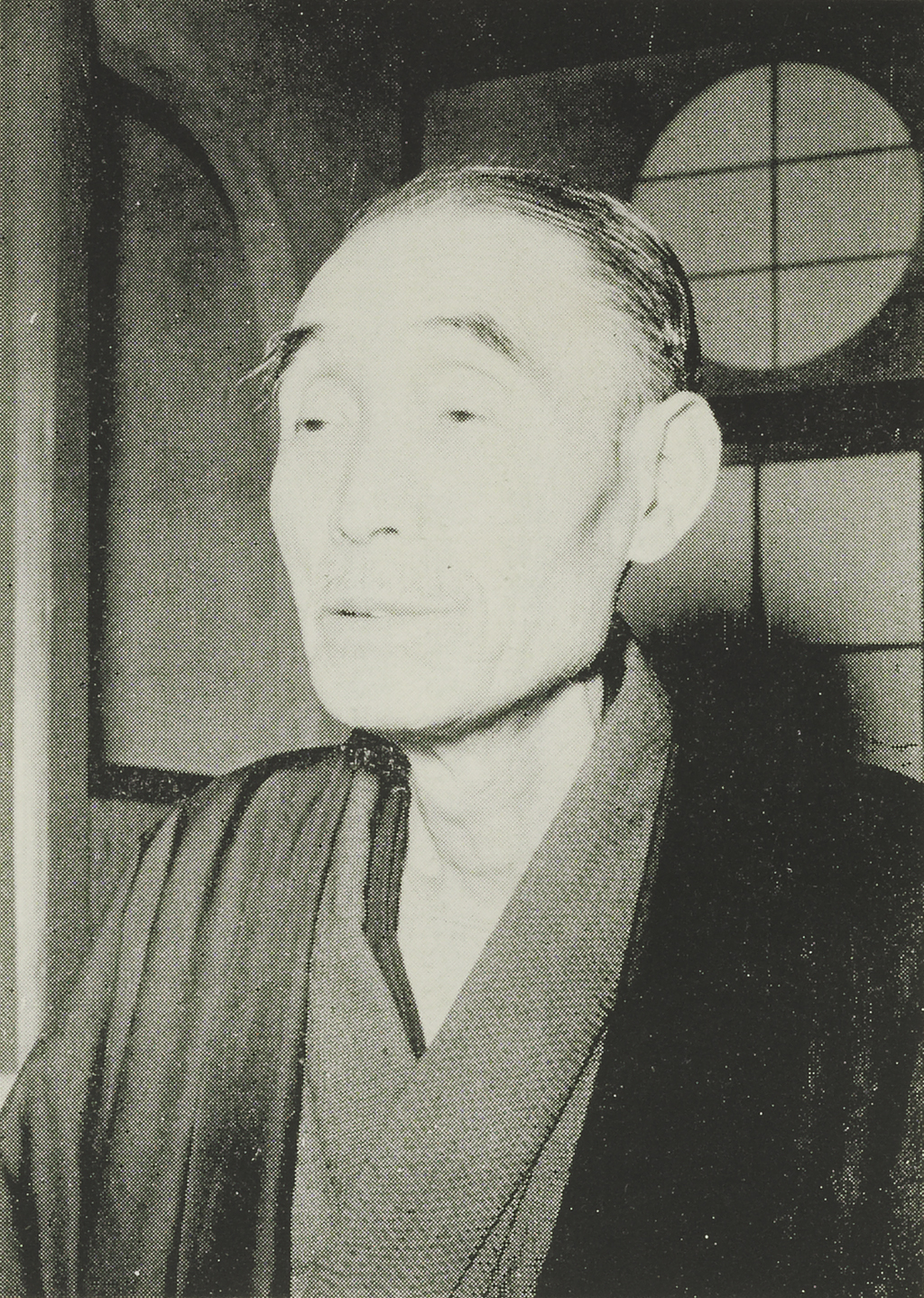 Portrait of Ogura Masatsune (小倉正恒, 1875 – 1961)